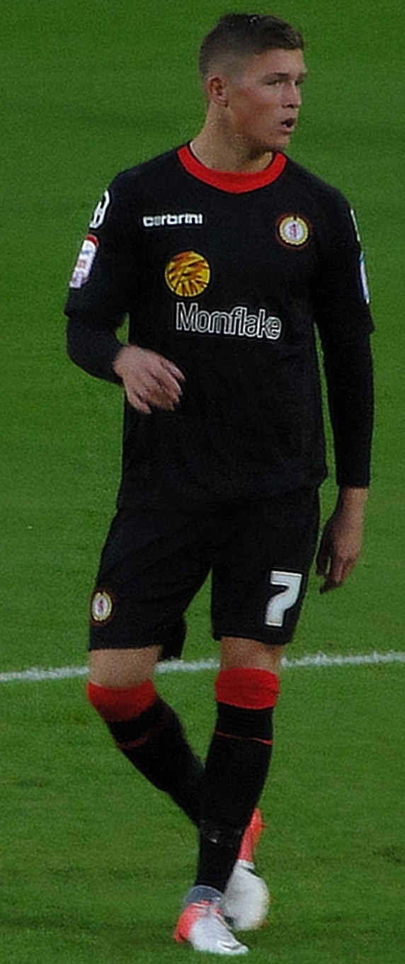 Crewe Alexandra player Max Clayton playing against West Ham United in the League Cup at The Boleyn Ground, August 2012